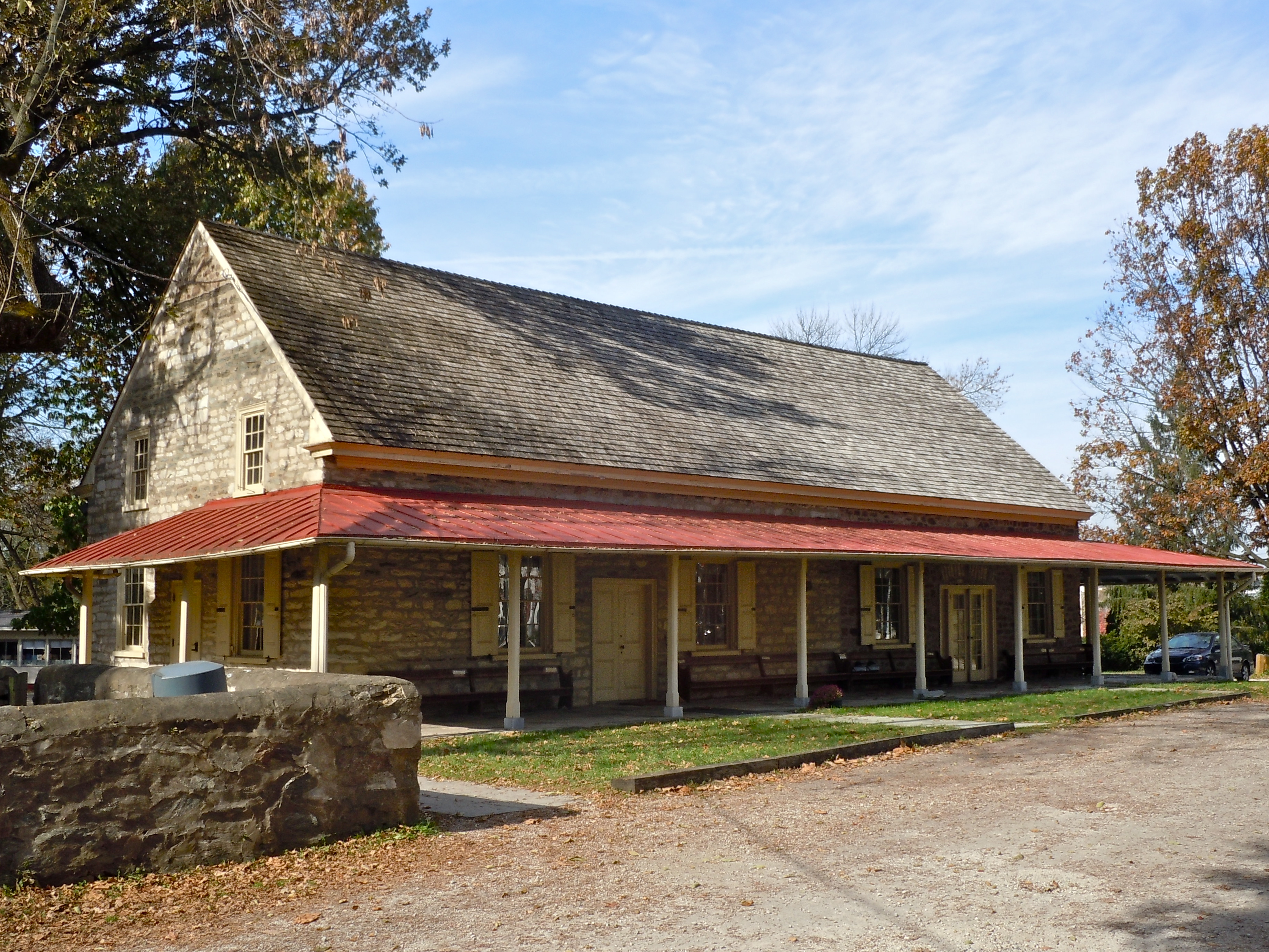 Plymouth Friends' Meeting House, at the corner of Germantown and Butler Pikes, Plymouth Meeting, Montgomery County, Pennsylvania. On the NRHP since February 18, 1971.